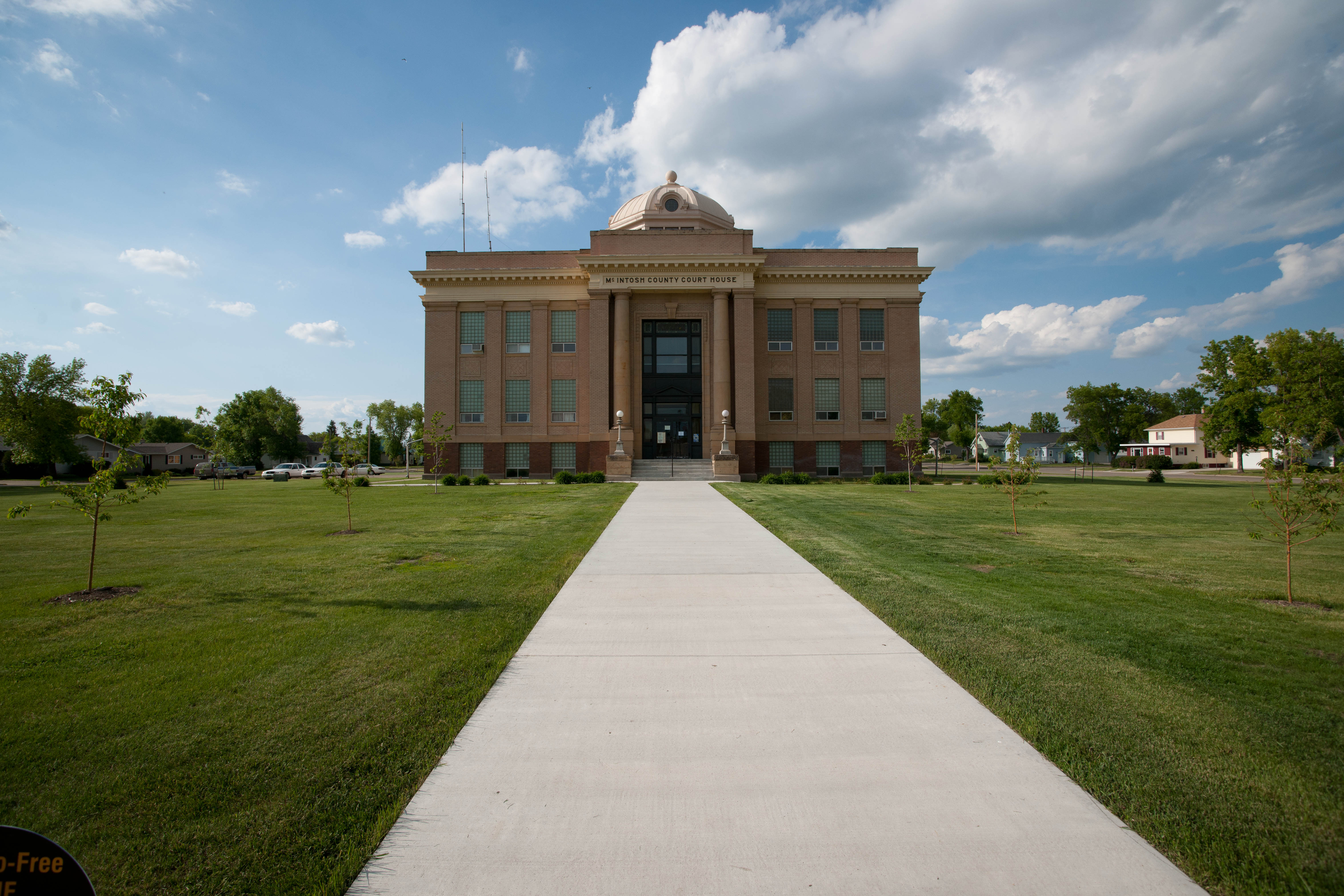 Ashley, North Dakota. McIntosh County Courthouse. From